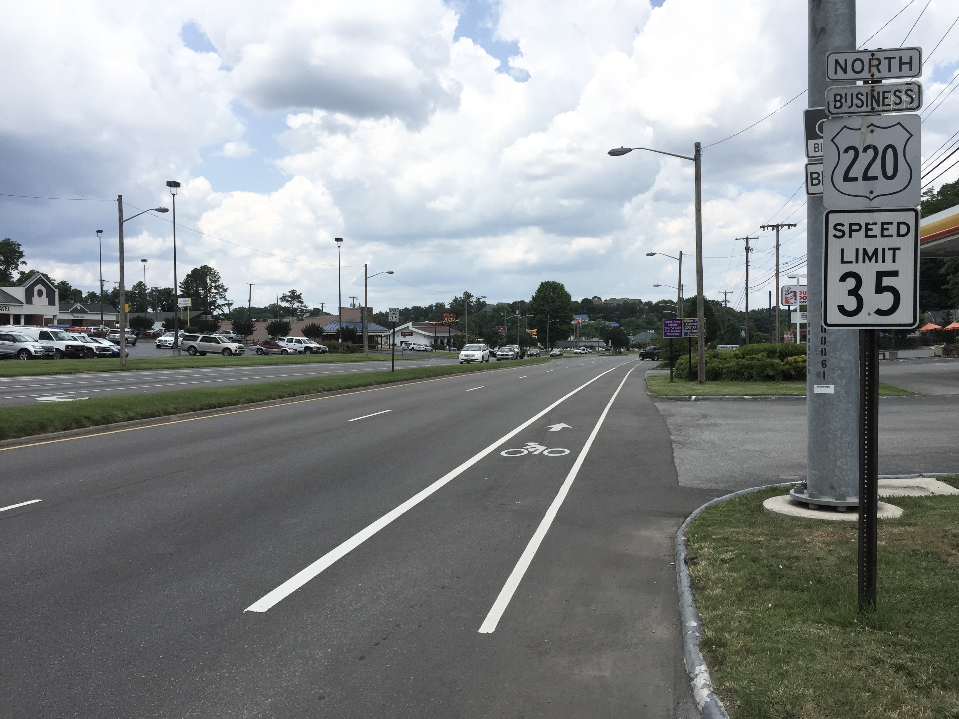 View north along U.S. Route 220 Business (Franklin Road) at Penarth Road in Roanoke, Virginia